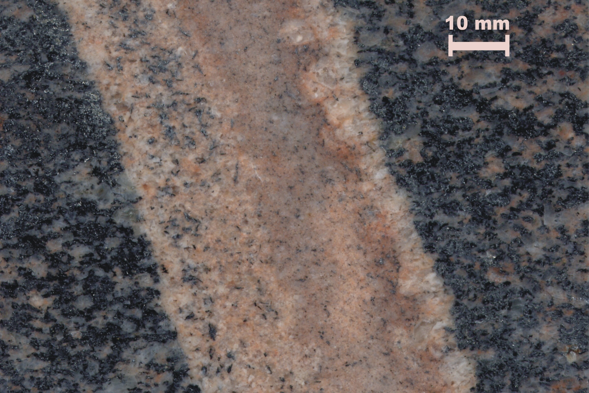 Aplite in the granodiorite Švihov (Železné hory, CZ)